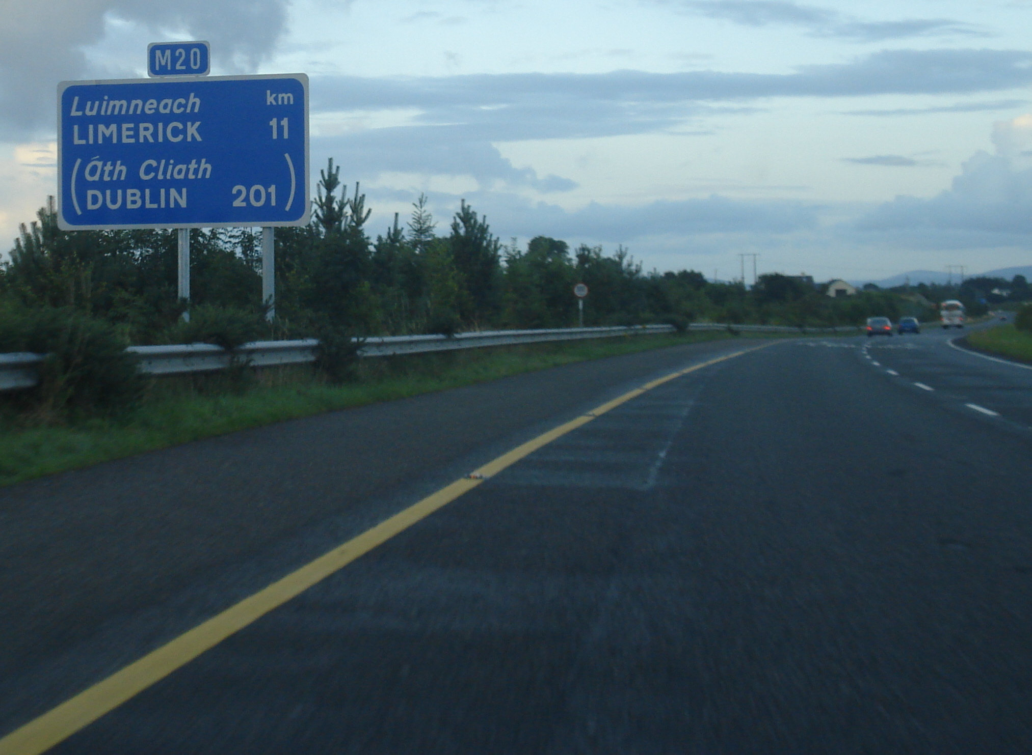 M20 (RoI) distance sign